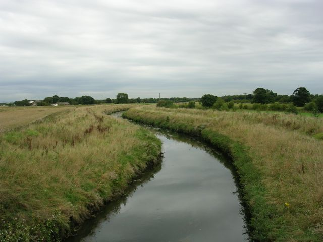 Glaze Brook. Glaze Brook (also known as the River Glaze) looking downstream from Pennington Bridge, which carries the East Lancashire Road (A580) over the brook. The brook is now making its way across the western edge of Chat Moss. Prior to this point the brook is known as Pennington Brook. The source of the brook being Pennington Flash, a lake formed by mining subsidence near Leigh. SJ67159837 looking S.